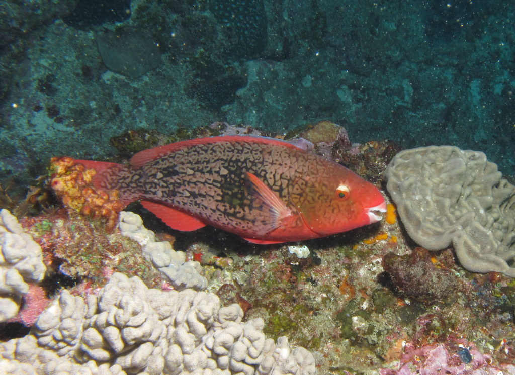 Ember parrotfish, Scarus rubroviolaceus - initial phase